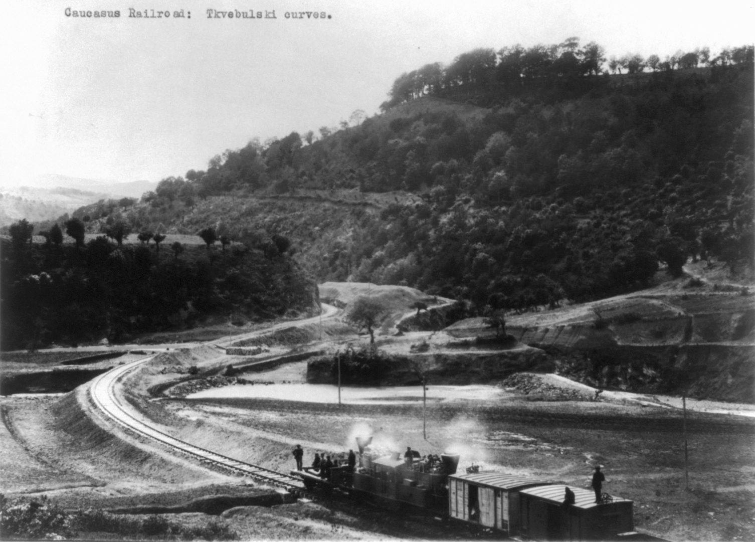 Summary: Caucasus RR train below Tkvebulski curves.